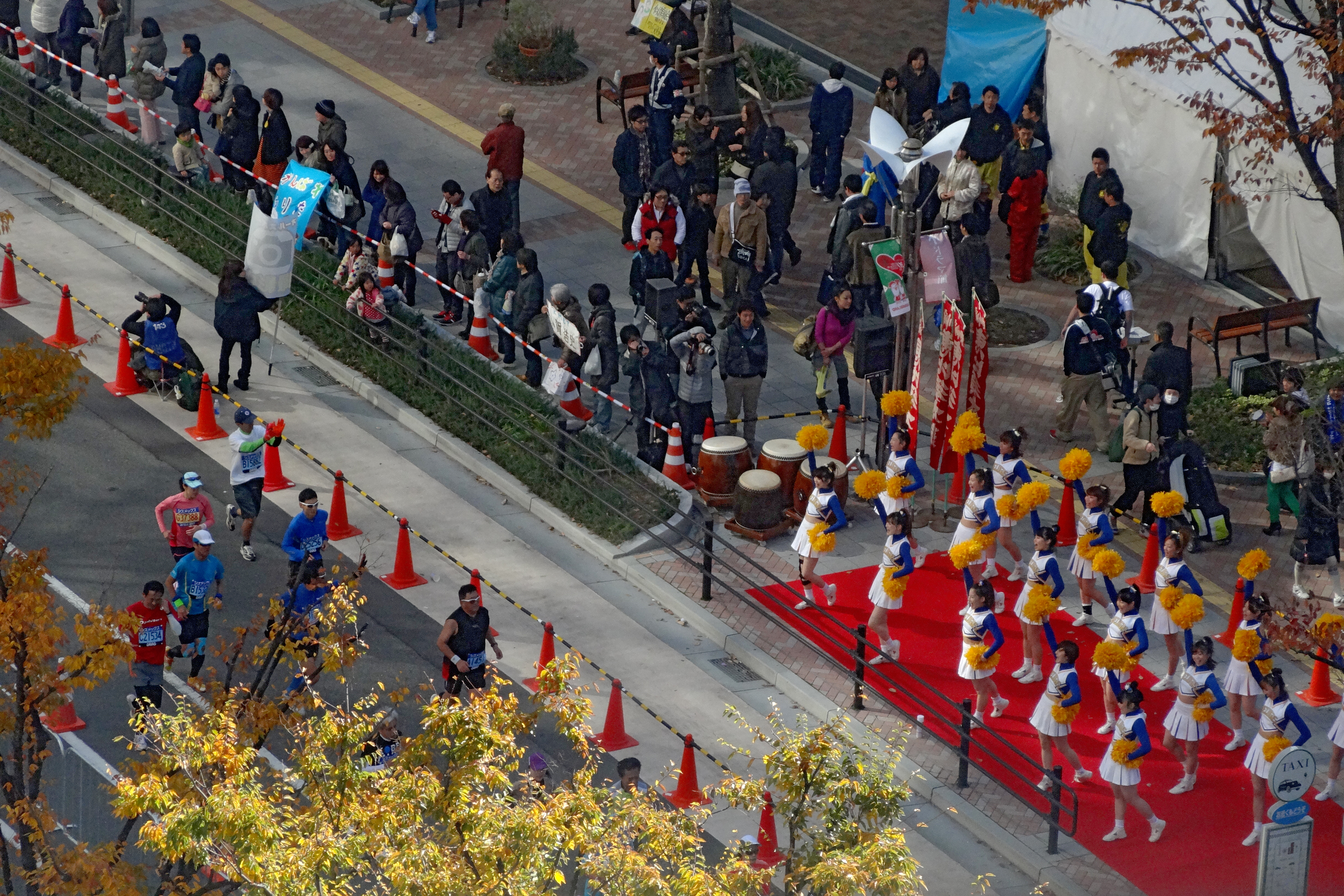 Kobe Marathon 2012 at Kobe, Hyogo prefecture, Japan